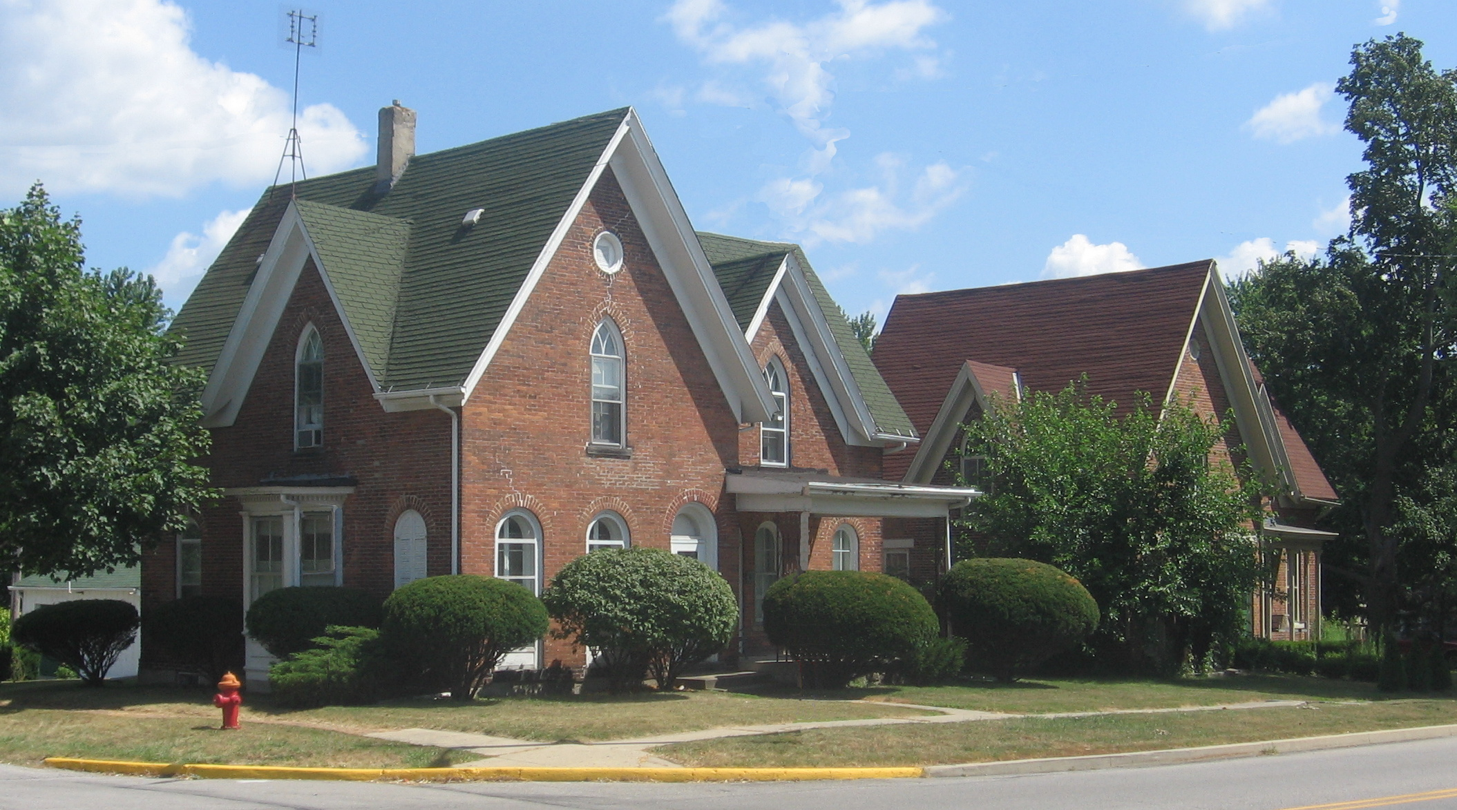 Two older brick houses along Union Street, in Waterloo, Indiana